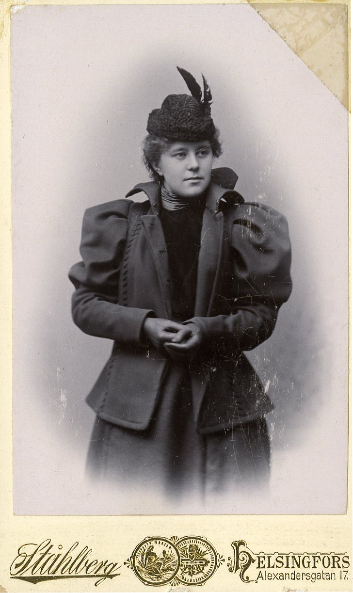 Photograph of the Finnish vocalist Signe Liljequist (1876–1958).